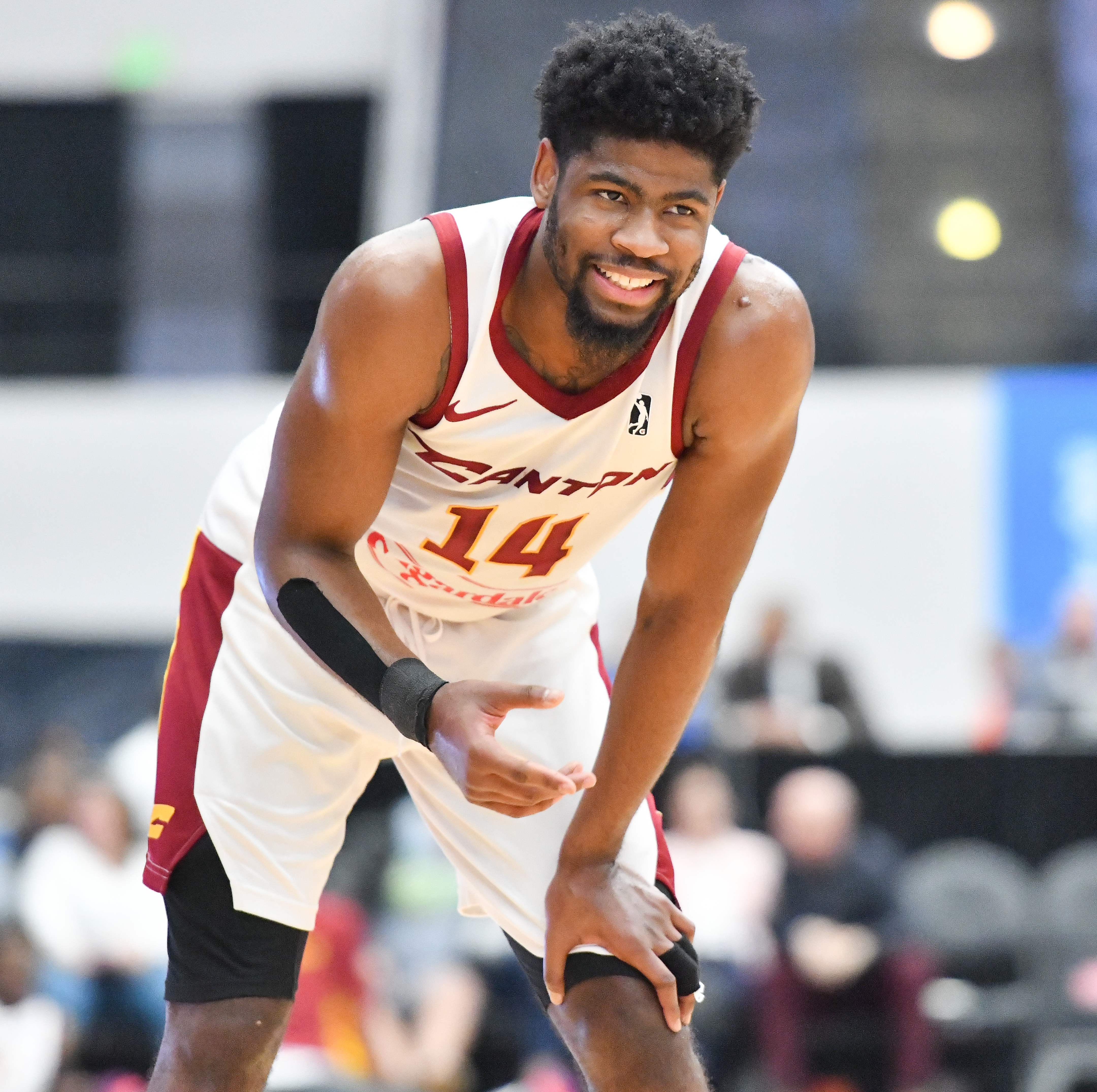 Malik Newman. Lakeland Magic vs Canton Charge. RP Funding Center. Lakeland, Fla. Jan. 2, 2020. (Photo by Tom Hagerty.)